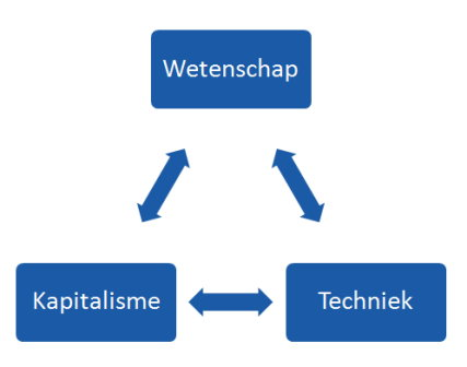 WTK-complex - A representation of the driving forces in Western society designed by Max Wildiers. ( Science Technology Capitalism )